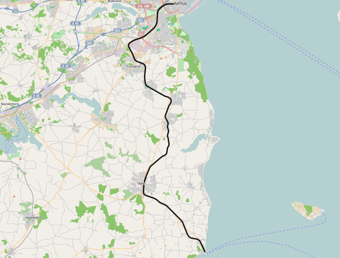 Railway line Århus - Hov